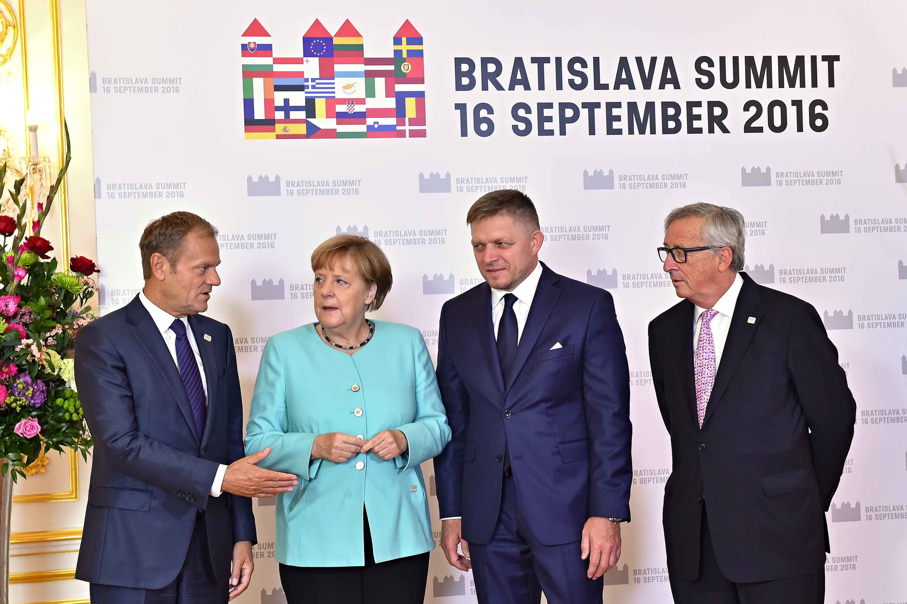 HANDSHAKE - BRATISLAVA SUMMIT 16. SEPTEMBER 2016. Donald Tusk, European Council, President - Angela Merkel, Germany, Federal Chancellor - Róbert Fico, Slovakia, Prime Minister- Jean-Claude Juncker, European Commission, Photo Rastislav Polak